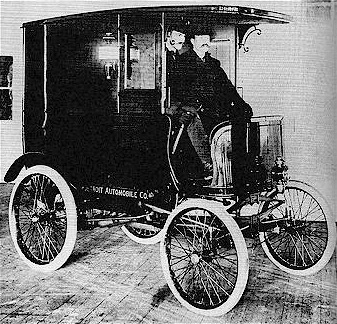 The first product of the Detroit Automobile Company, a delivery wagon, was completed in January 1900, and demonstrated on the streets of Detroit with considerable success.